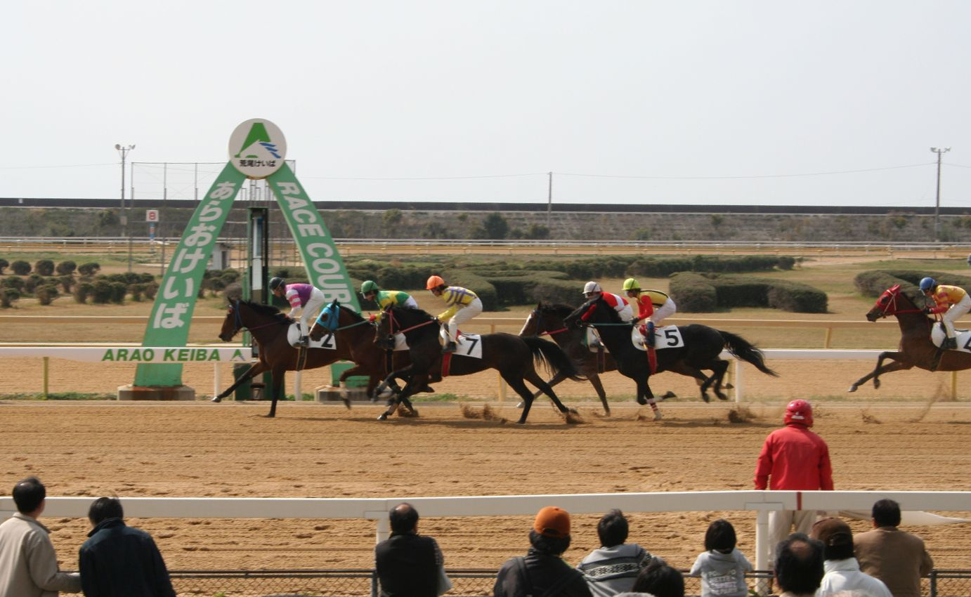 Arao Racecource 荒尾競馬場